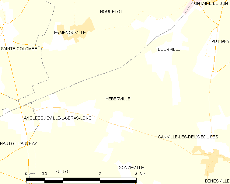 Map of French municipality Héberville